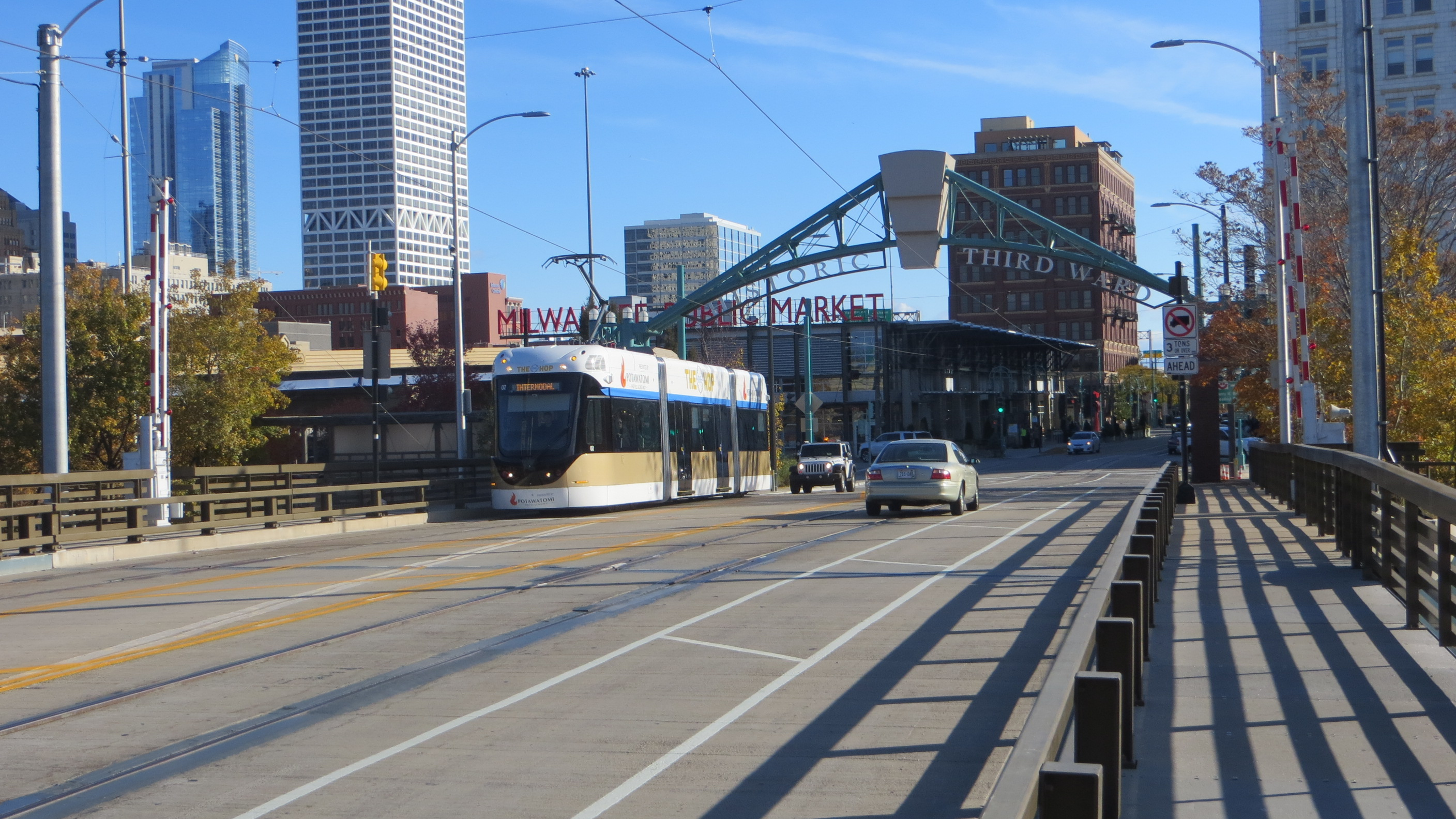 Hop streetcar westbound on the St. Paul Avenue Bridge, over the Milwaukee River, on Nov. 3, 2018 - the second day of service on the then-new streetcar system. The bridge, built in 1966, is a table lift bridge. When it raises, the overhead wires of the streetcar line do not move.